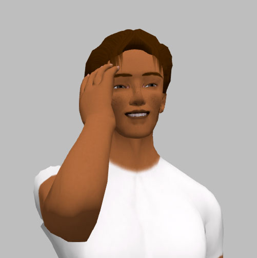 A gesture of Hayashiya Sanpei I